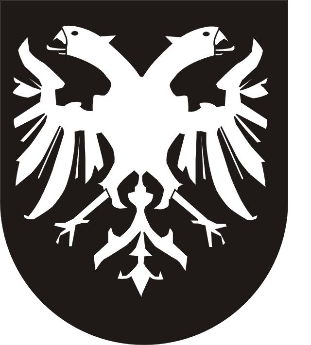 coat of arms